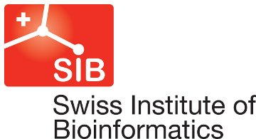 Logo of the SIB Swiss Institute of Bioinformatics